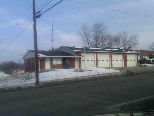 Town Hall / FFD after addition of bay, office and training room.